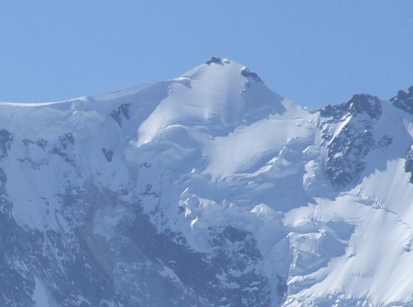 Zumsteinspize seen from Passo Monte Moro Picture taken by user Idéfix , 16 march 2007